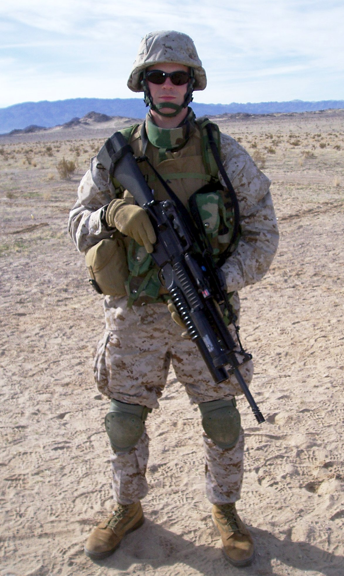 This is me fully equiped with pretty much everything that I will be wearing into combat. 29 PalmsLance Corporal McCauley